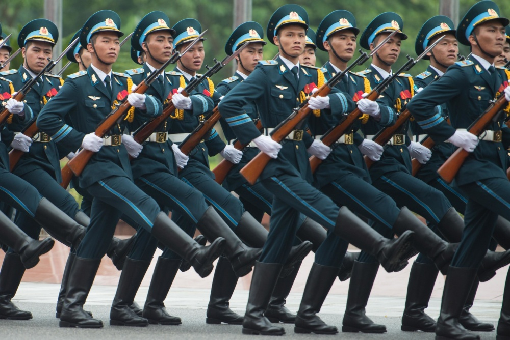 Honor Guard of the Vietnam People's Army with SKS Carbine